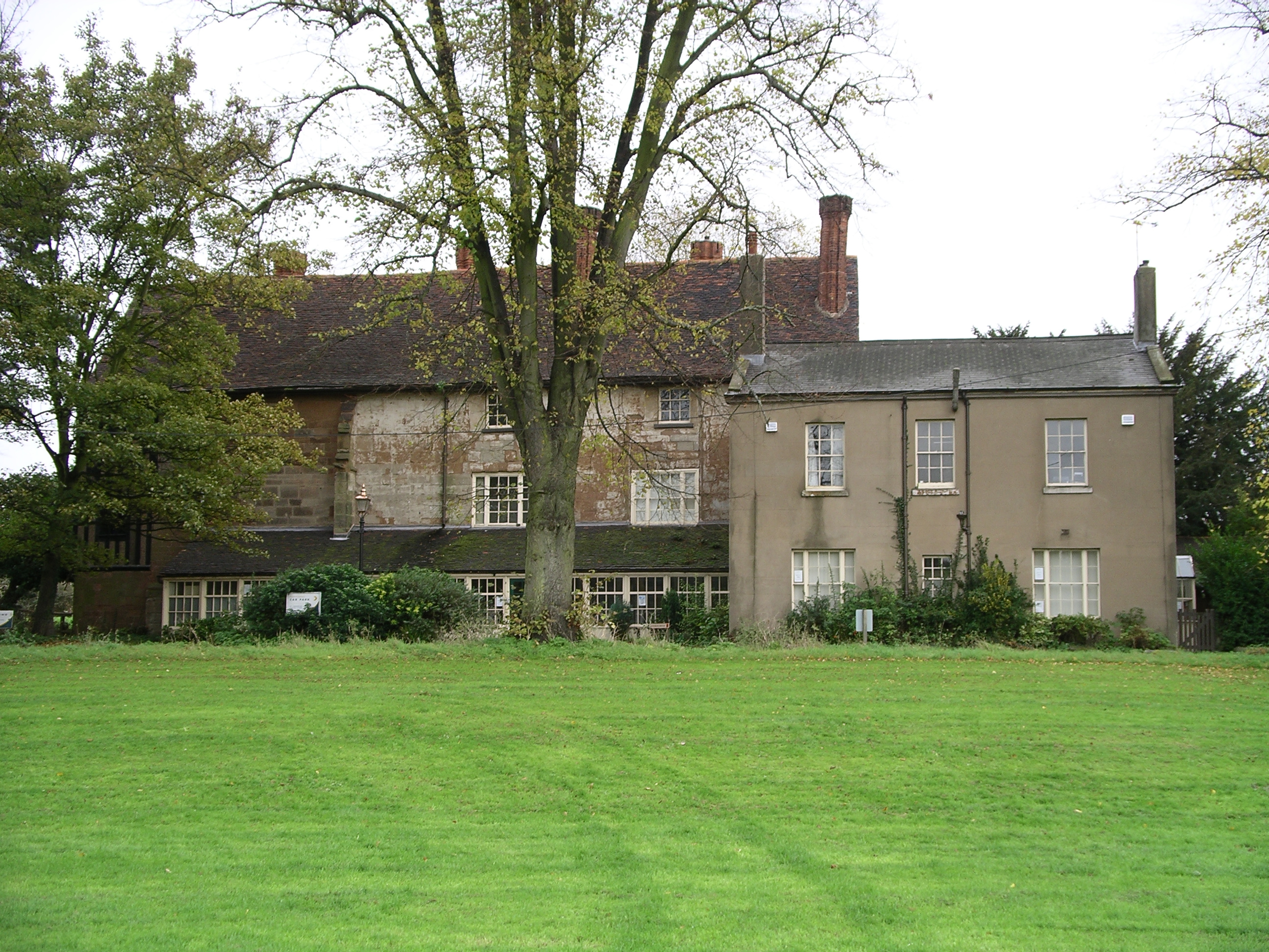 Photo taken on 12 November 2006 of the Charter House, Coventry, England.